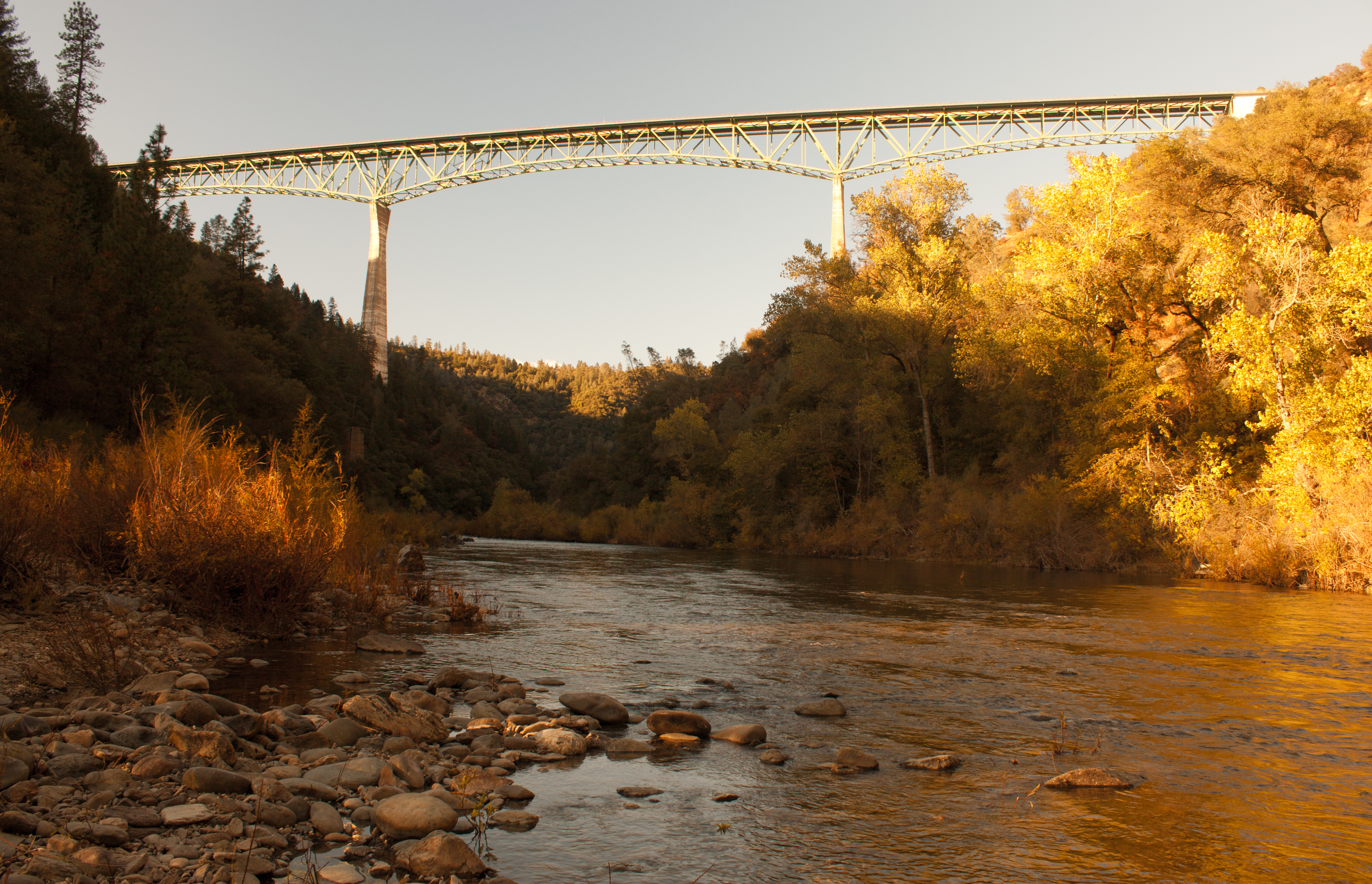 The Foresthill Bridge over the American River Canyon in Auburn, CA.